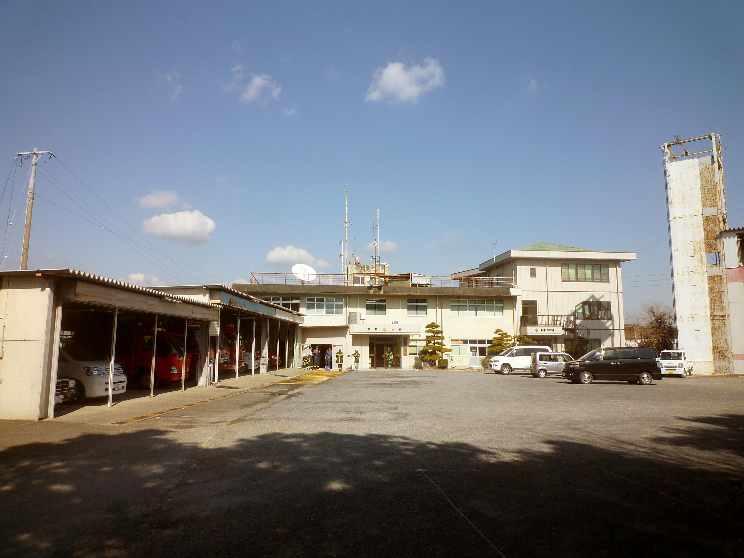 The "Shima Fire Station" in Ugata, Ago-chō, Shima City, Mie Prefecture, Japan.